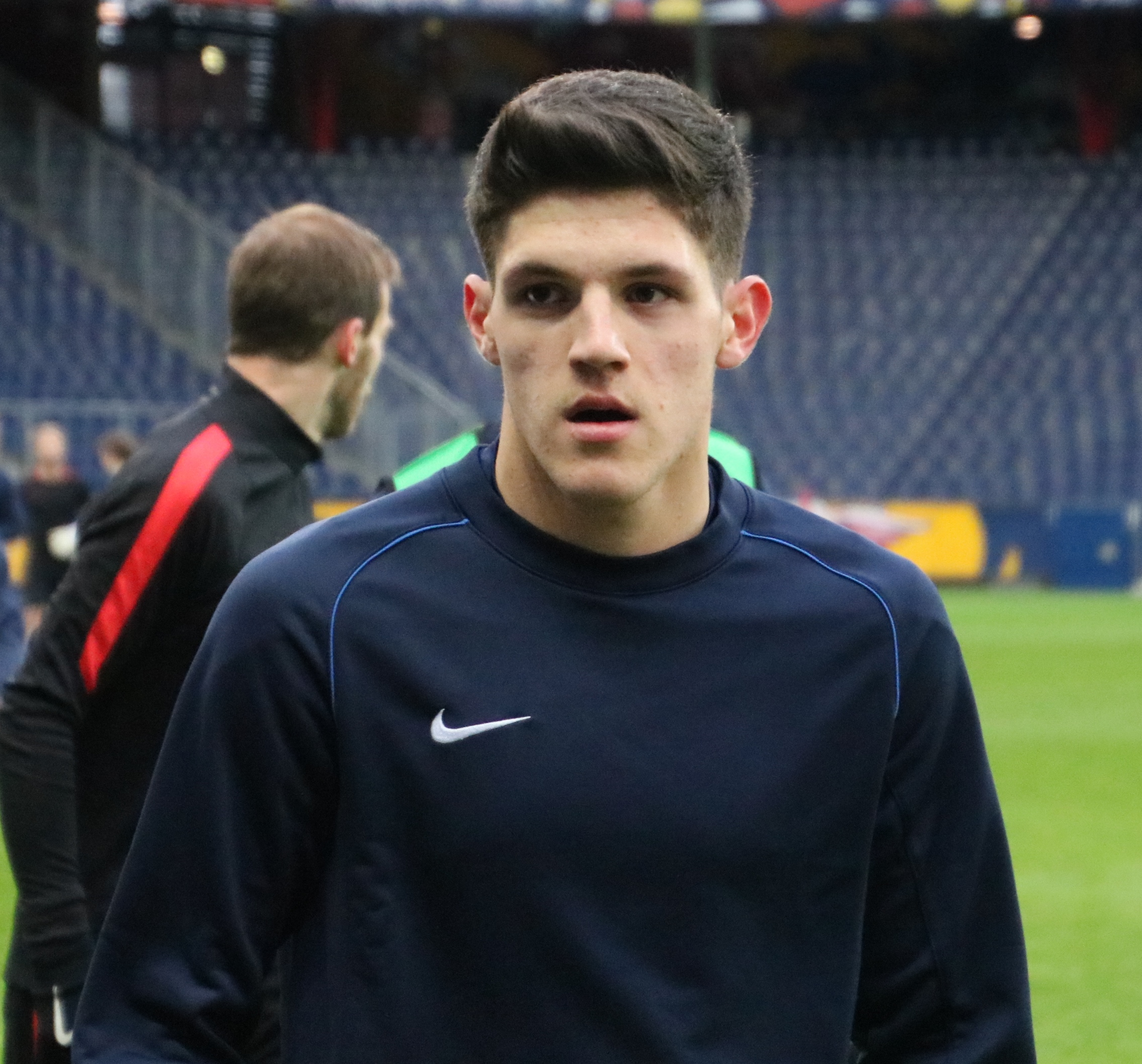 UEFA Youth League match